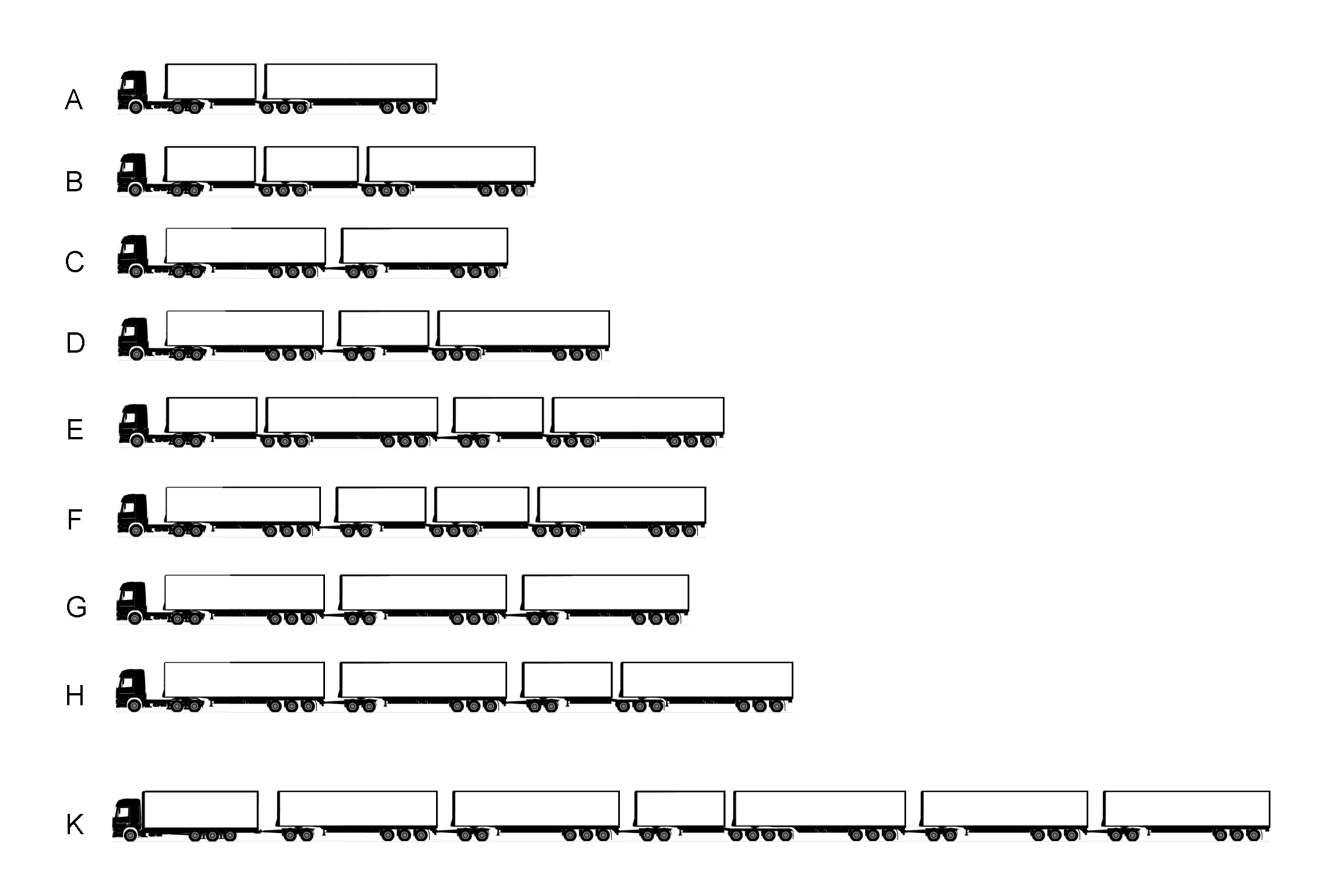 Road train configurations allowed in Australia.